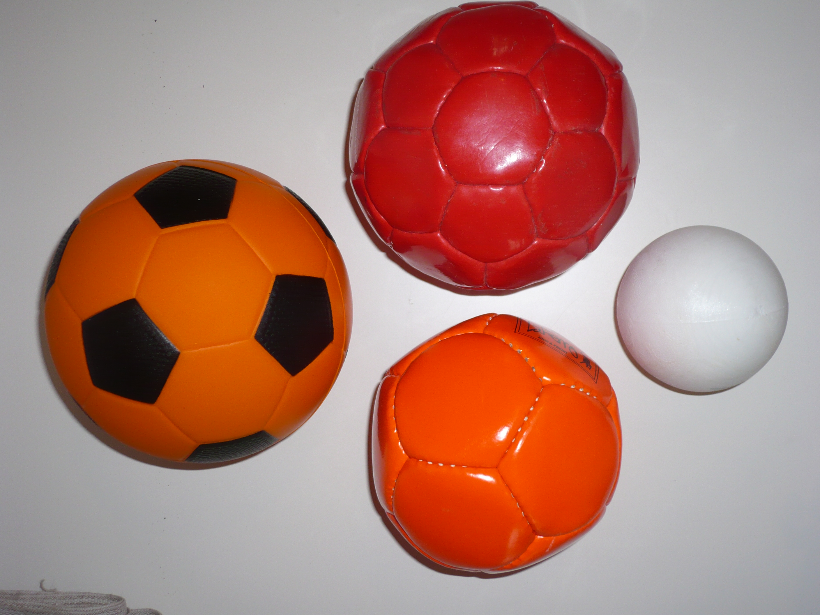 Balls for traditional polo, snow and arena polo, and training.